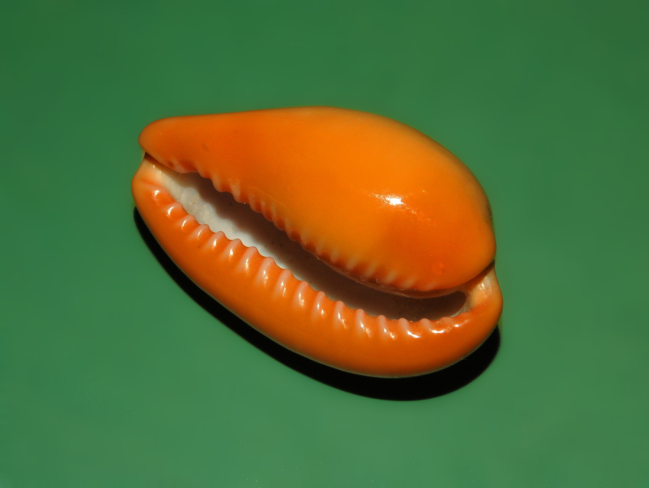 Zonaria pyrum - Sicily